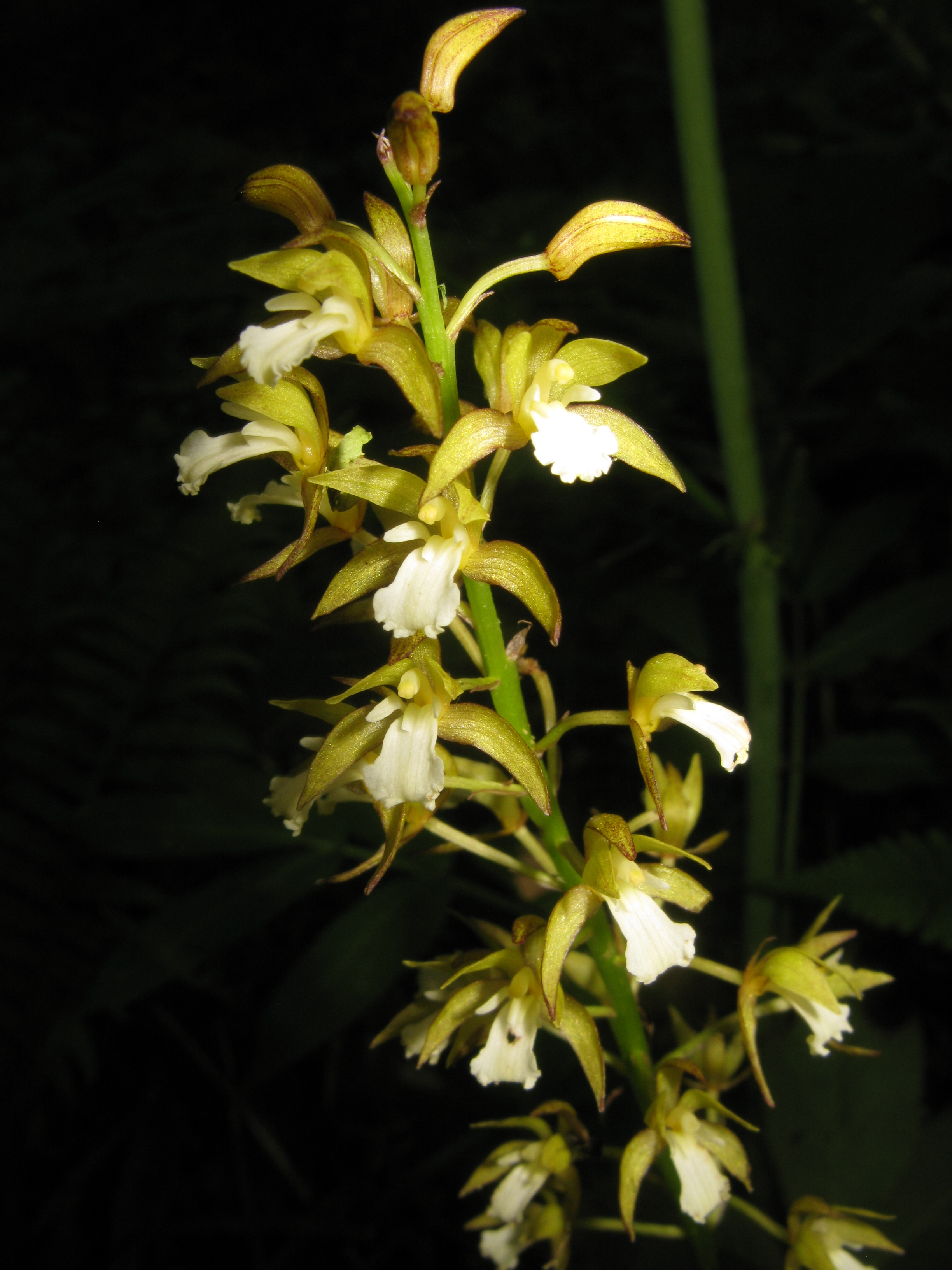 Oreorchis patens, Mount Nishi-Azuma, Fukushima pref., Japan